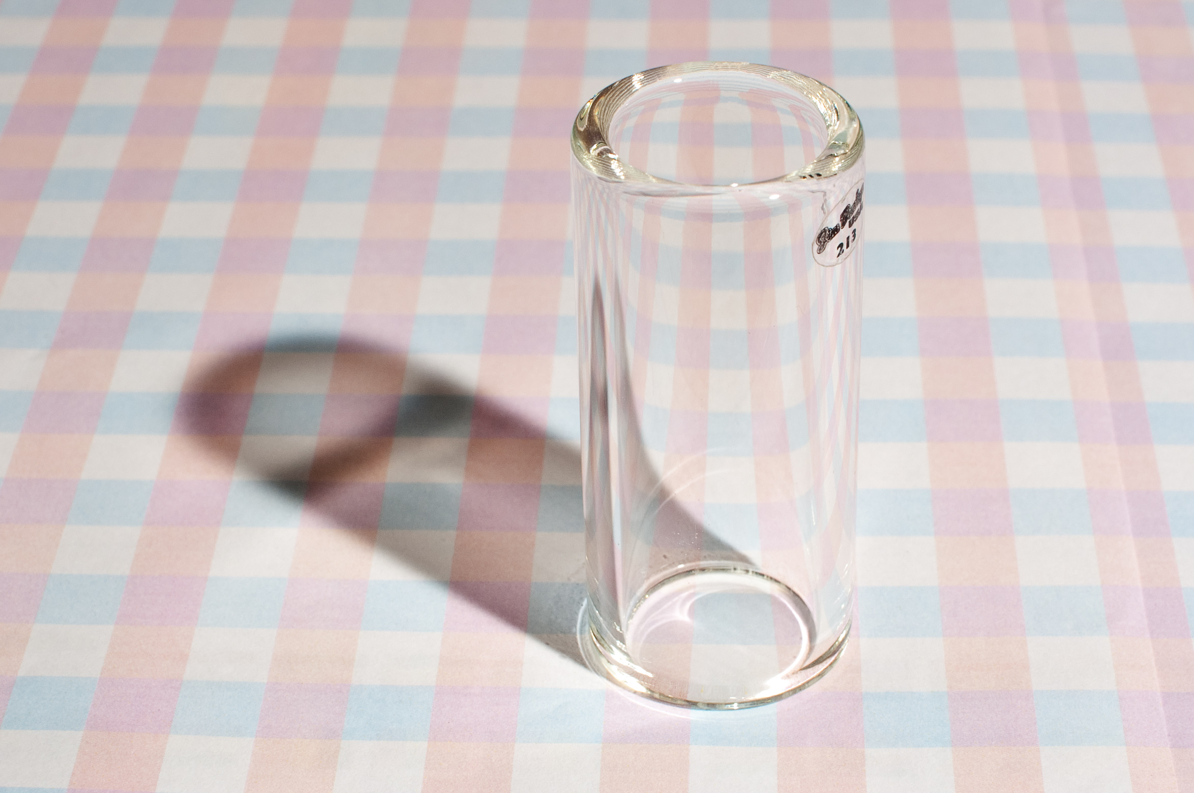 Guitar slide made of Borosilicate glass. Grid corresponds to 1cm